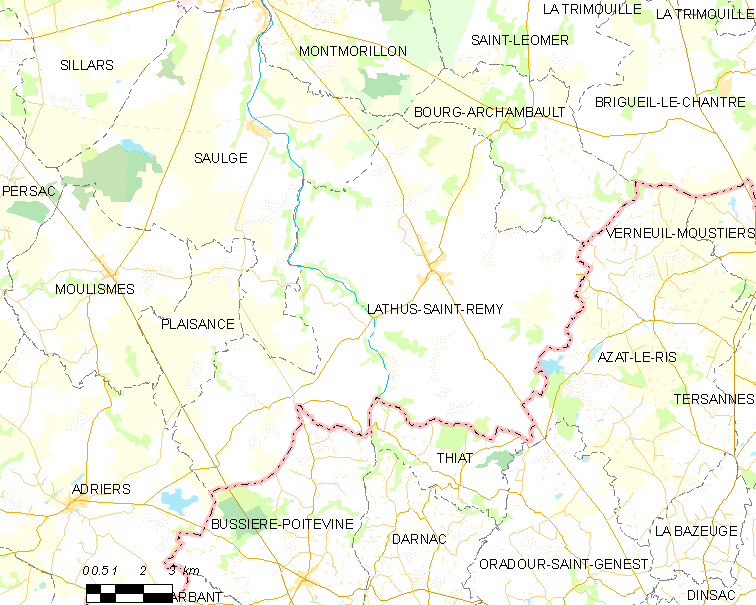 Map of French municipality Lathus-Saint-Rémy